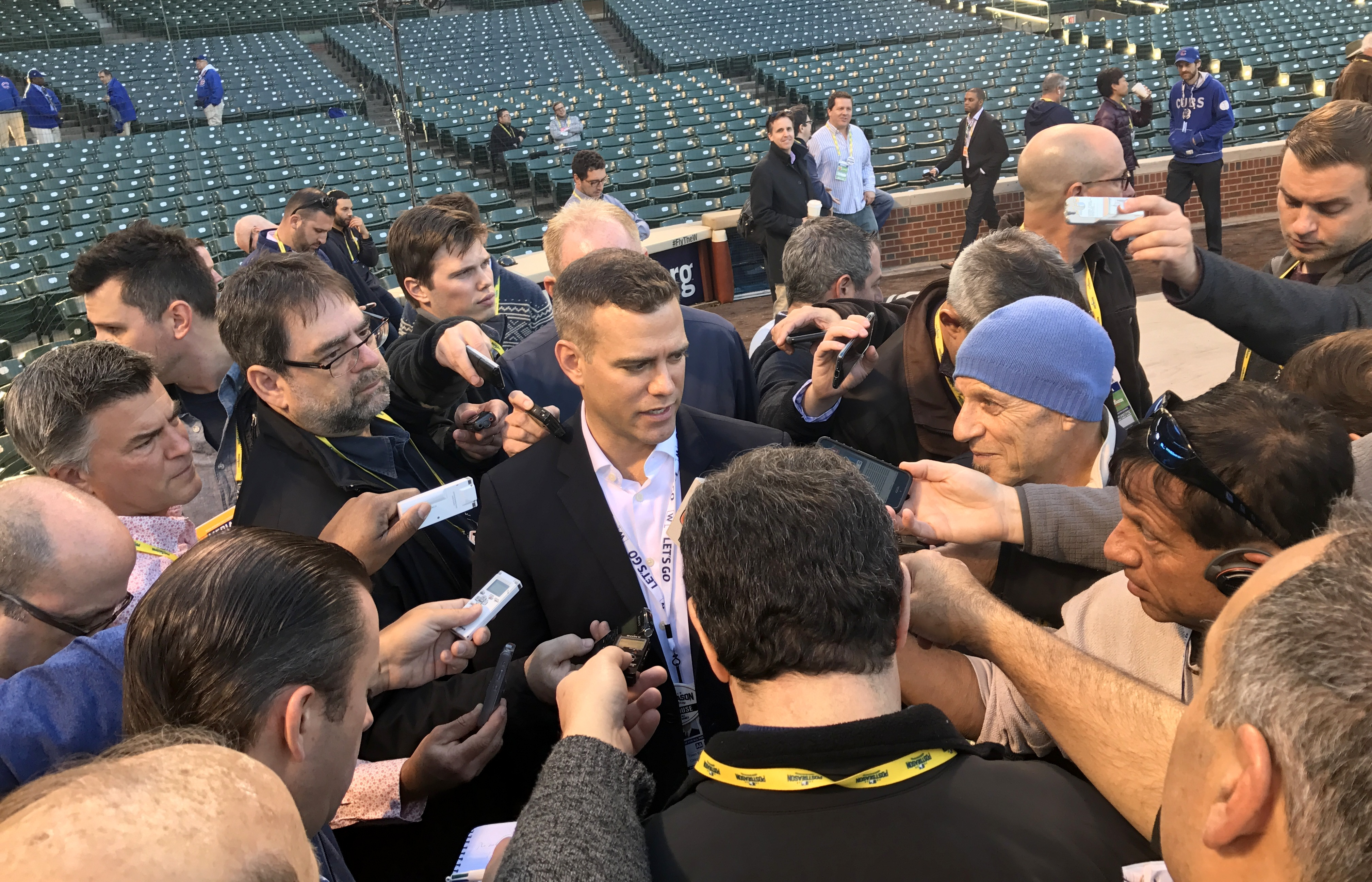 Cubs President of Baseball Operations Theo Epstein talks to reporters before NLCS Game 6.